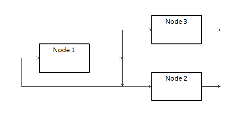 Open jackson network (final)